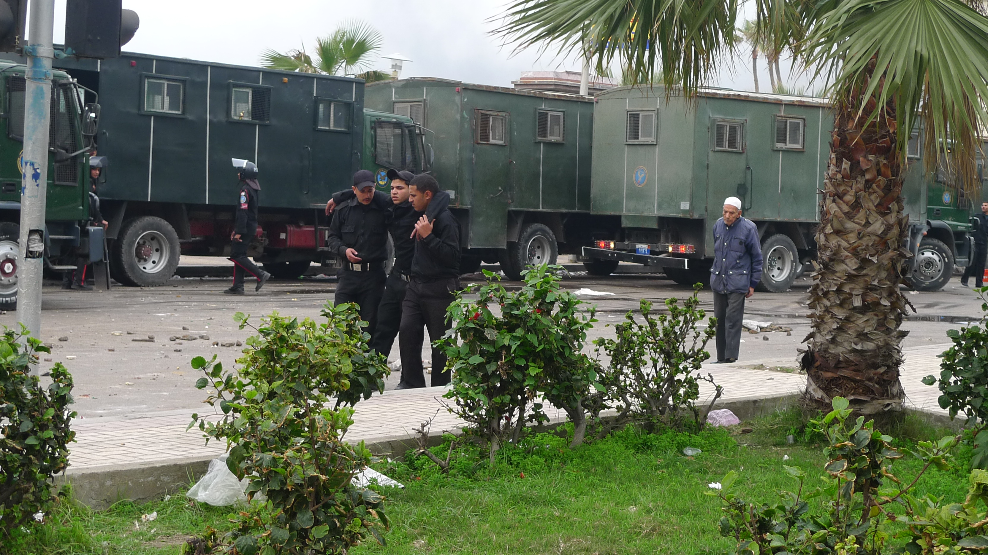 Police of Alexandria